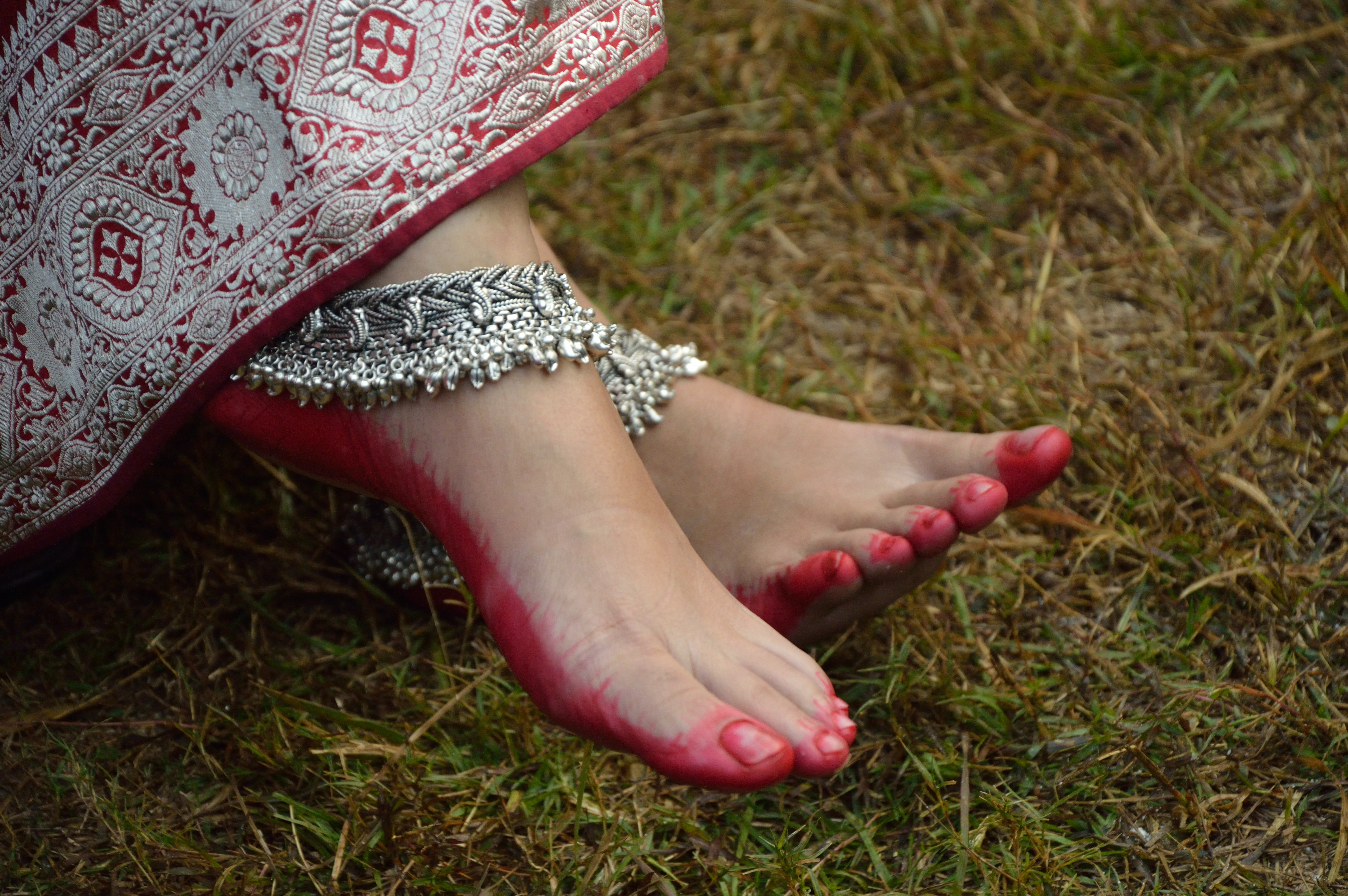 Photographed during the ‘The Statesman Vintage & Classic Car Rally 2013’ at Eastern Command Sports Stadium of Fort William, Kolkata. The rally was held at chilled morning on 13 January 2013 at the ECS Stadium, where 170 entrants were participated with cars and bikes manufactured from 1906 to 1978. This one day festival takes place on the second Sunday of every January in Kolkata since 1968 with full of period costume and cultural period pieces.